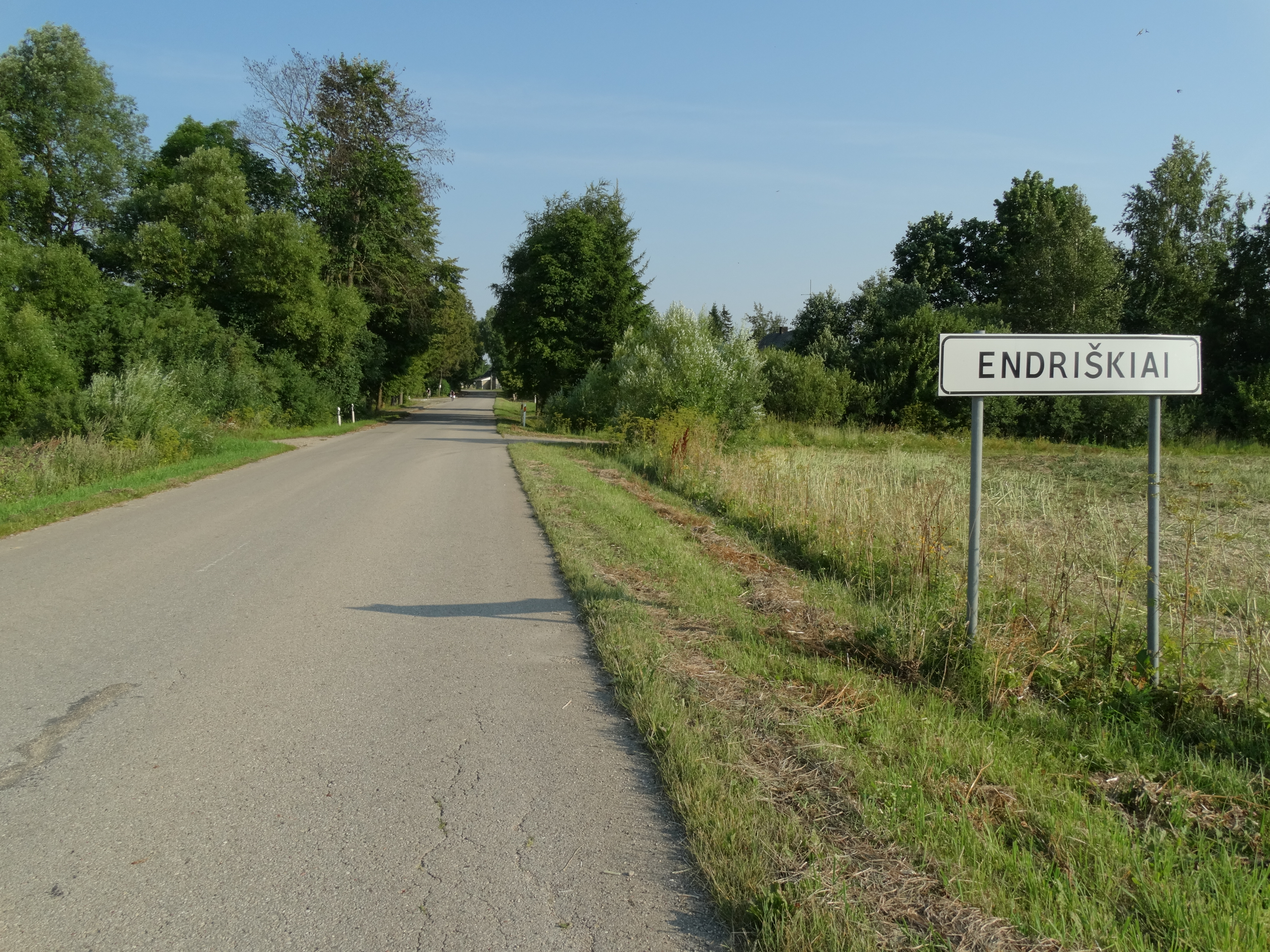 Endriškiai, Joniškis District, Lithuania